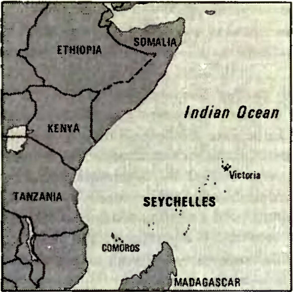 A map showing the location of the Seychelles in relation to nearby countries.